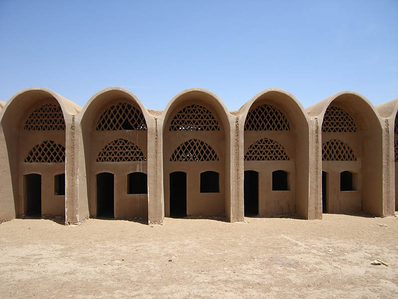 Inner court in the souk building of New Baris, el-Kharga depression, Egypt